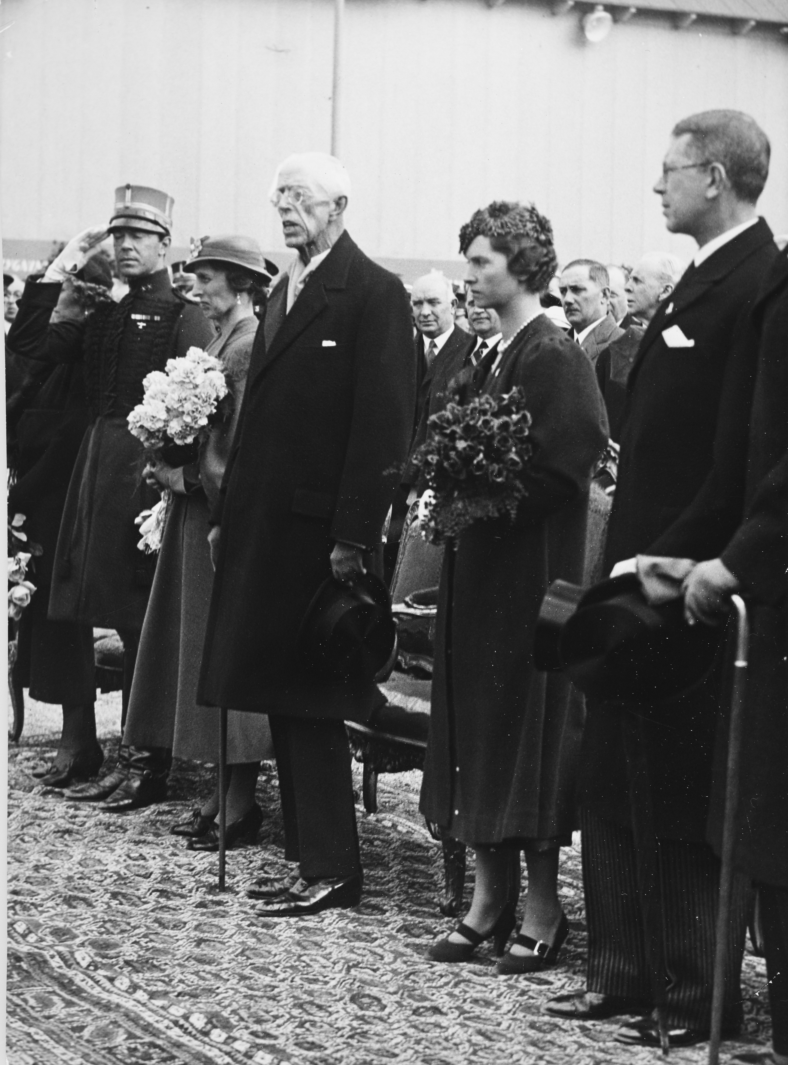 His Majesty Gustaf V and family members. From left Prince Gustaf Adolf, Crown Princess Louise, King Gustaf V, Princess Sibylla, Crown Prince Gustaf Adolf